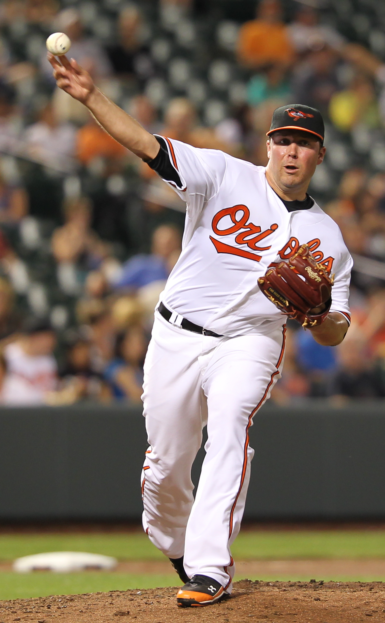 Tommy Hunter